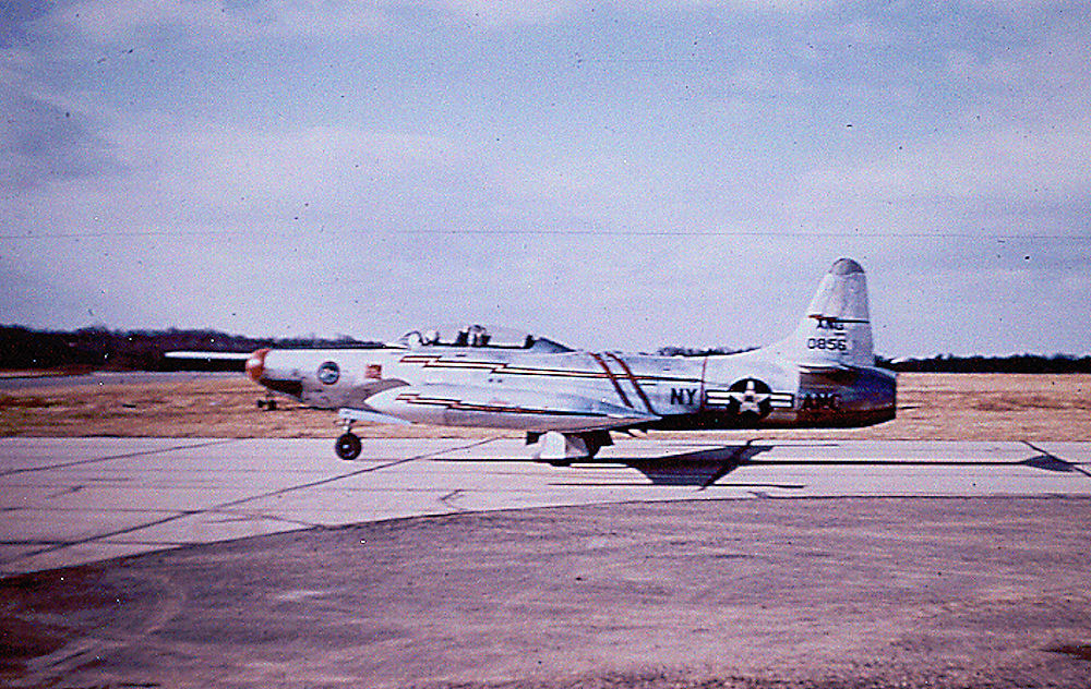 137th Fighter-Interceptor Squadron - Lockheed F-94B-1-LO Starfire 50-0856 Originally described as from the 136th Fighter-Interceptor Squadron, but emblem on the aircraft nose is for the 137th.